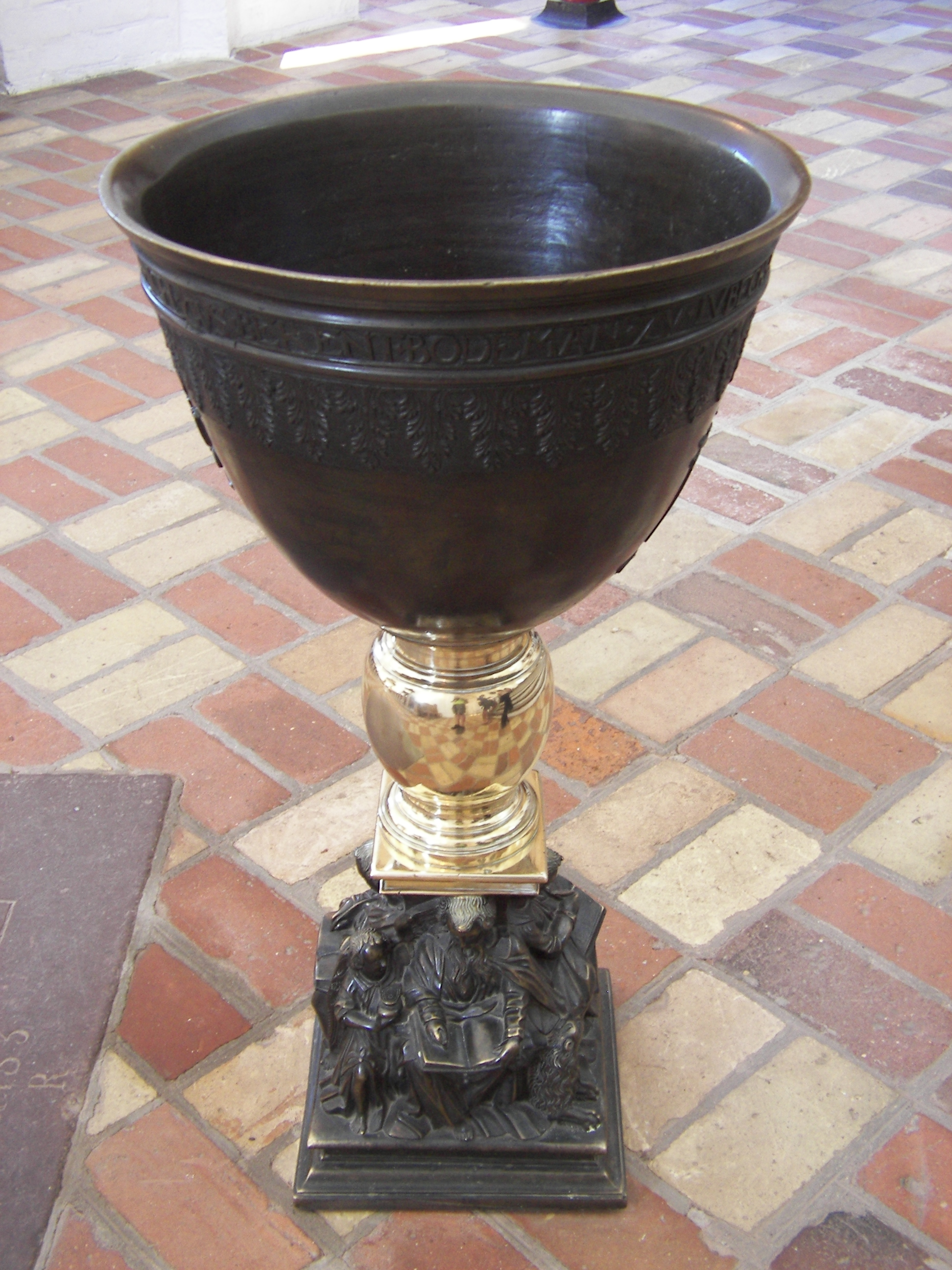 The baptismal funt in Odense cathedral, Denmark